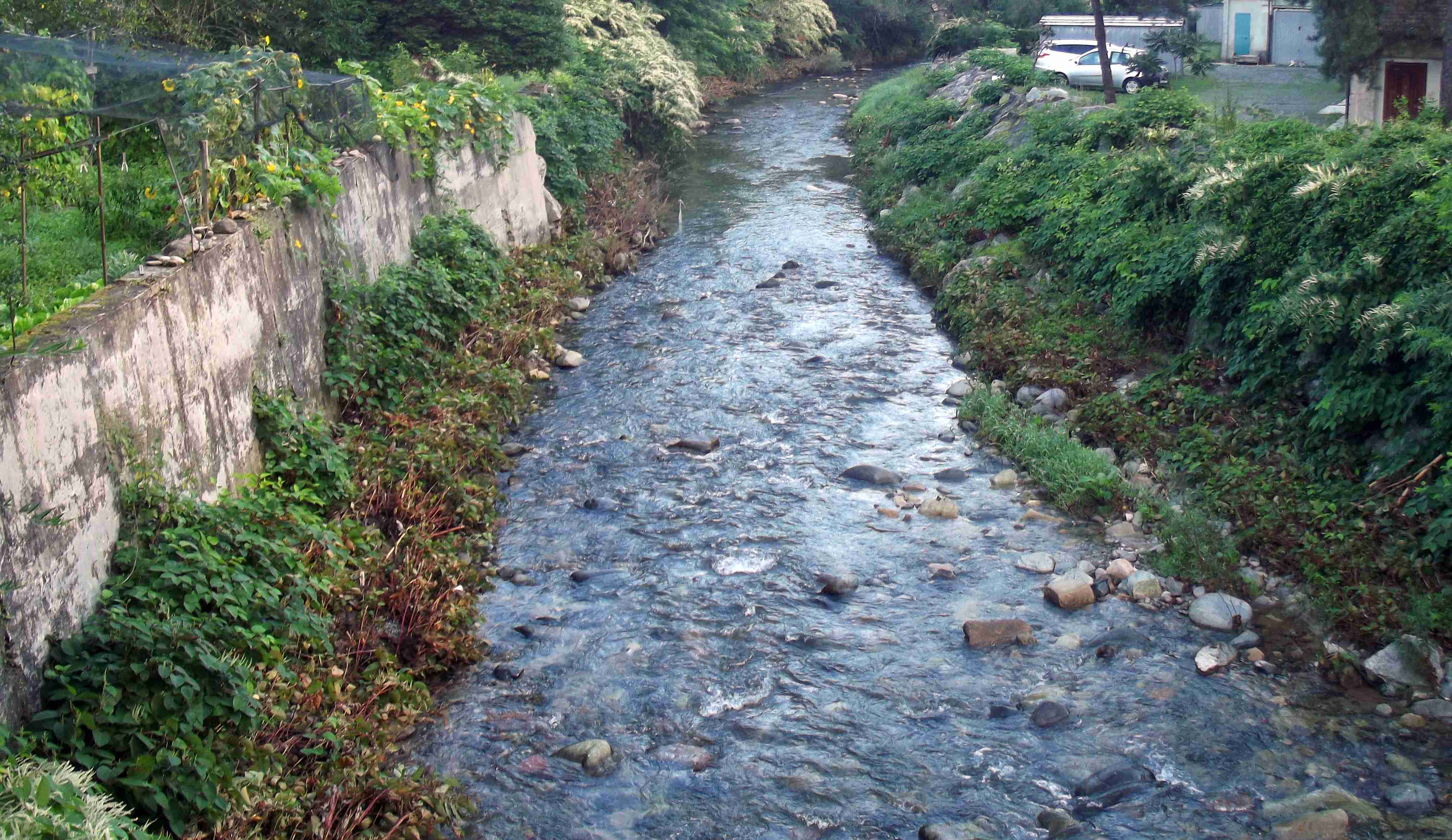 Ponzone creek near Pray (BI, Italy)